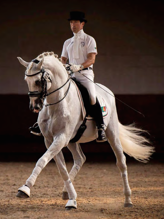 Carlos Pinto, cavalier olympic de dressage et entraineur international